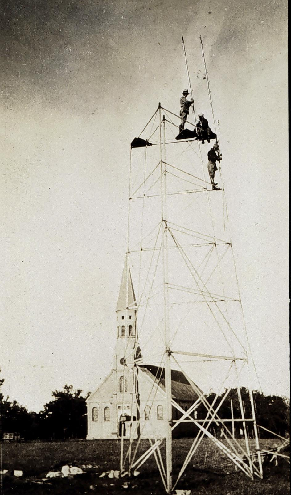 The first picture of a Bilby portable steel tower under construction. Bilby towers were made of prefabricated steel parts that could be reused. These towers were designed by Jasper Bilby, chief signalman of the C&GS. Minnesota.